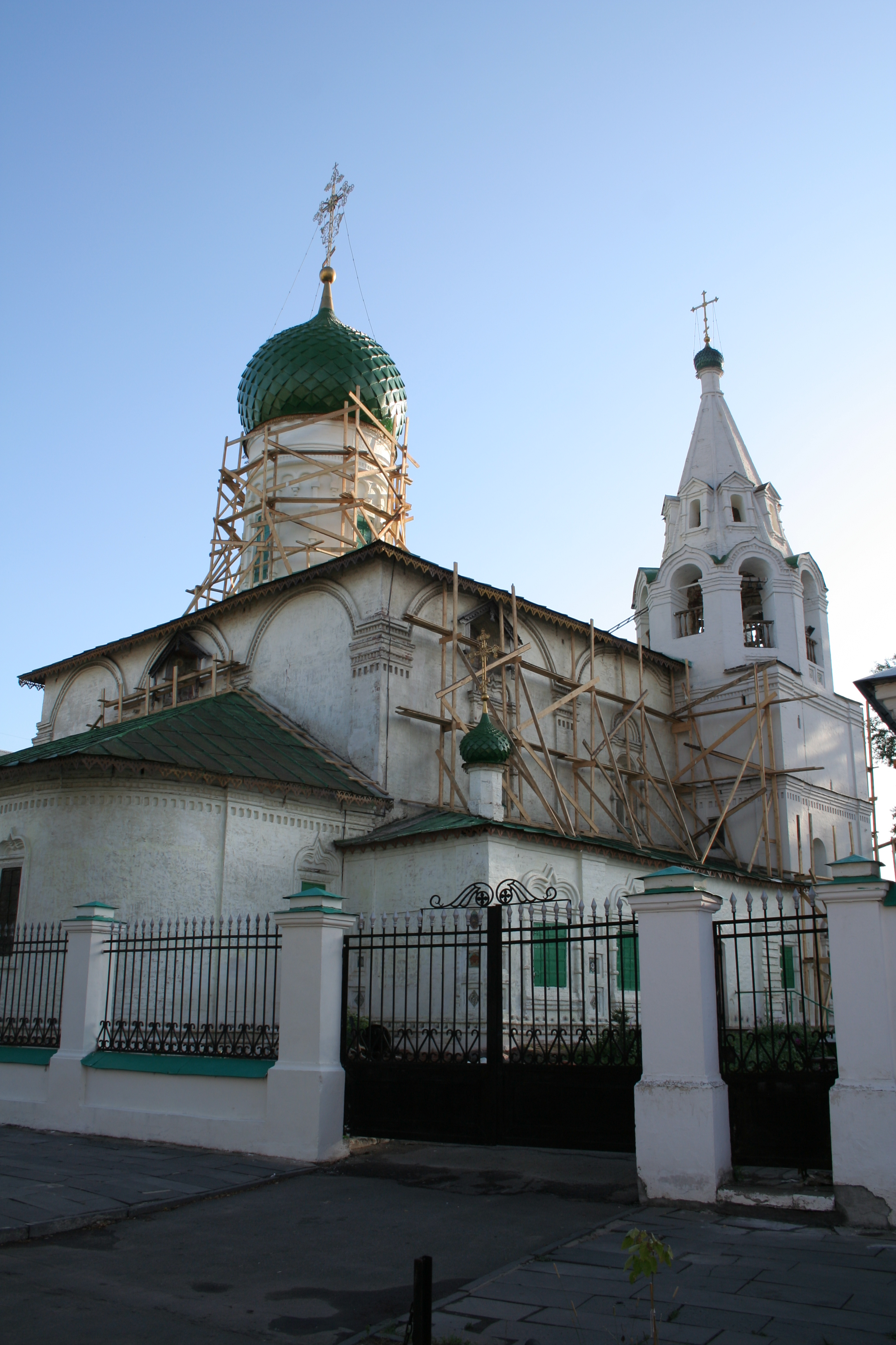 Church of Saint Demetrius of Thessaloniki in Yaroslavl, Russia